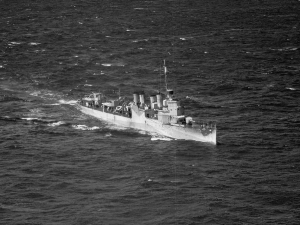 The Royal Navy destroyer HMS Beverley (H64) underway in the Atlantic Ocean, circa in 1942.